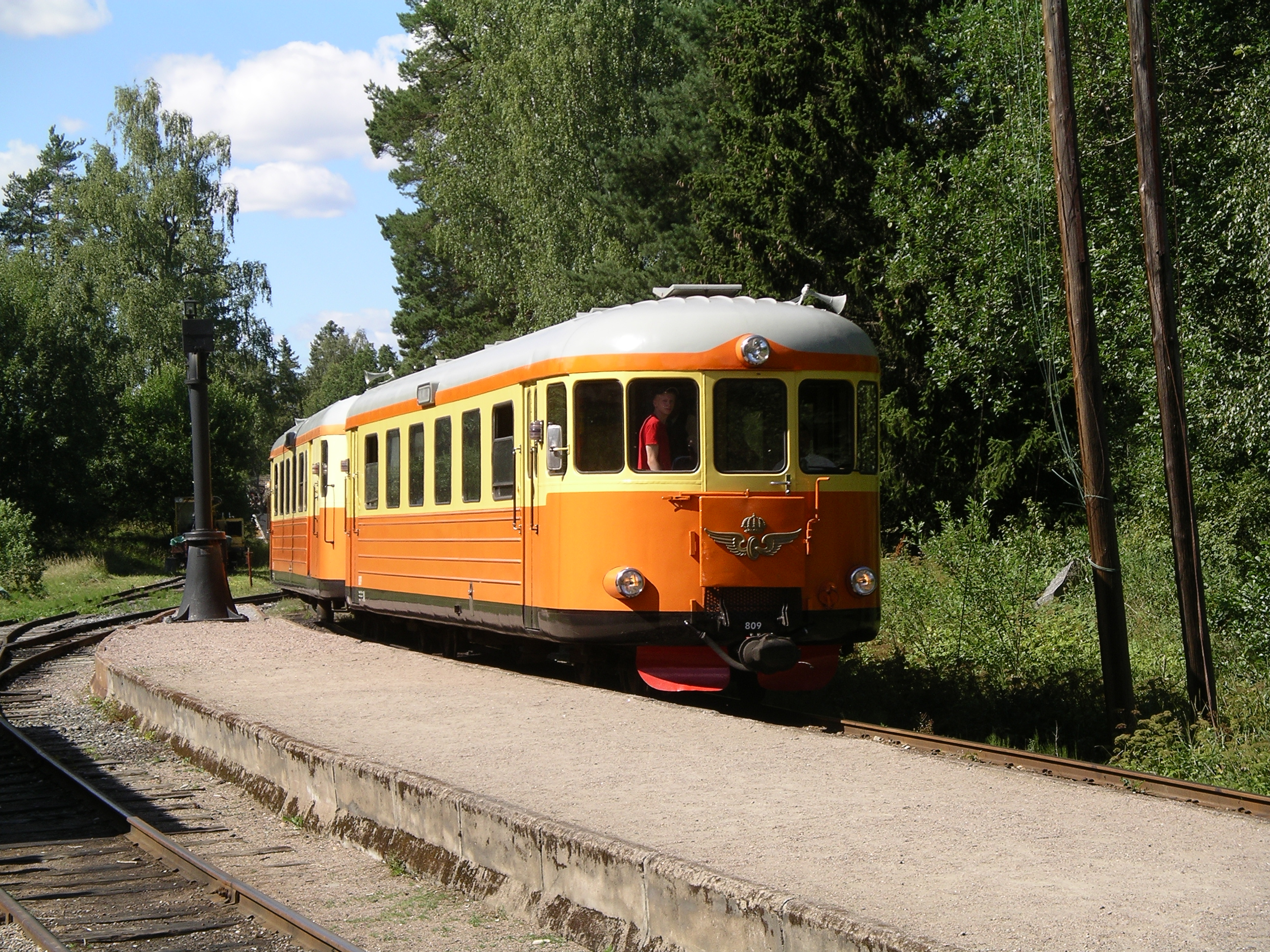 Railbus SJ YBo5p no 809, and SJ UBFo3yp no 2109 arrives at Marielund station at Upsala-Lenna Railway in Sweden